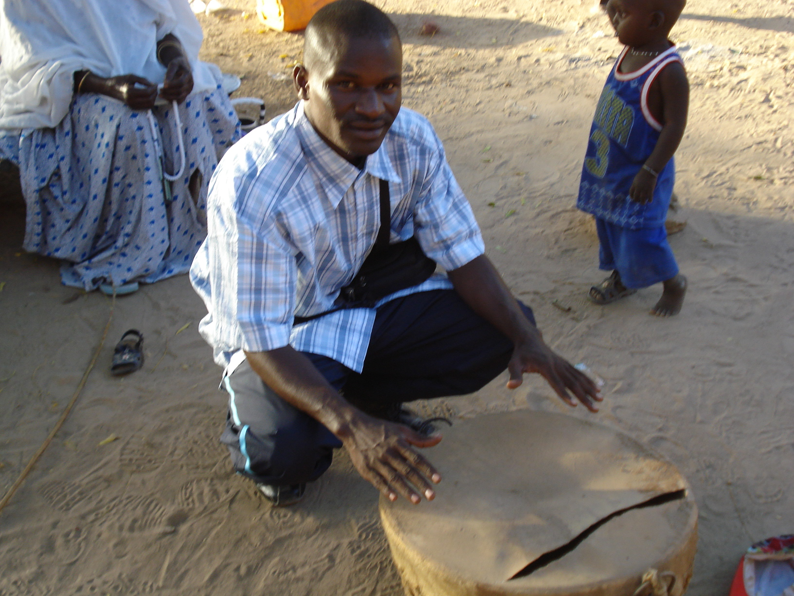 text